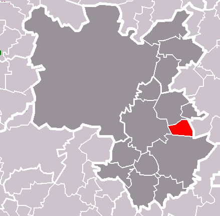 Location of Lhůta municipality within Plzeň-City District.